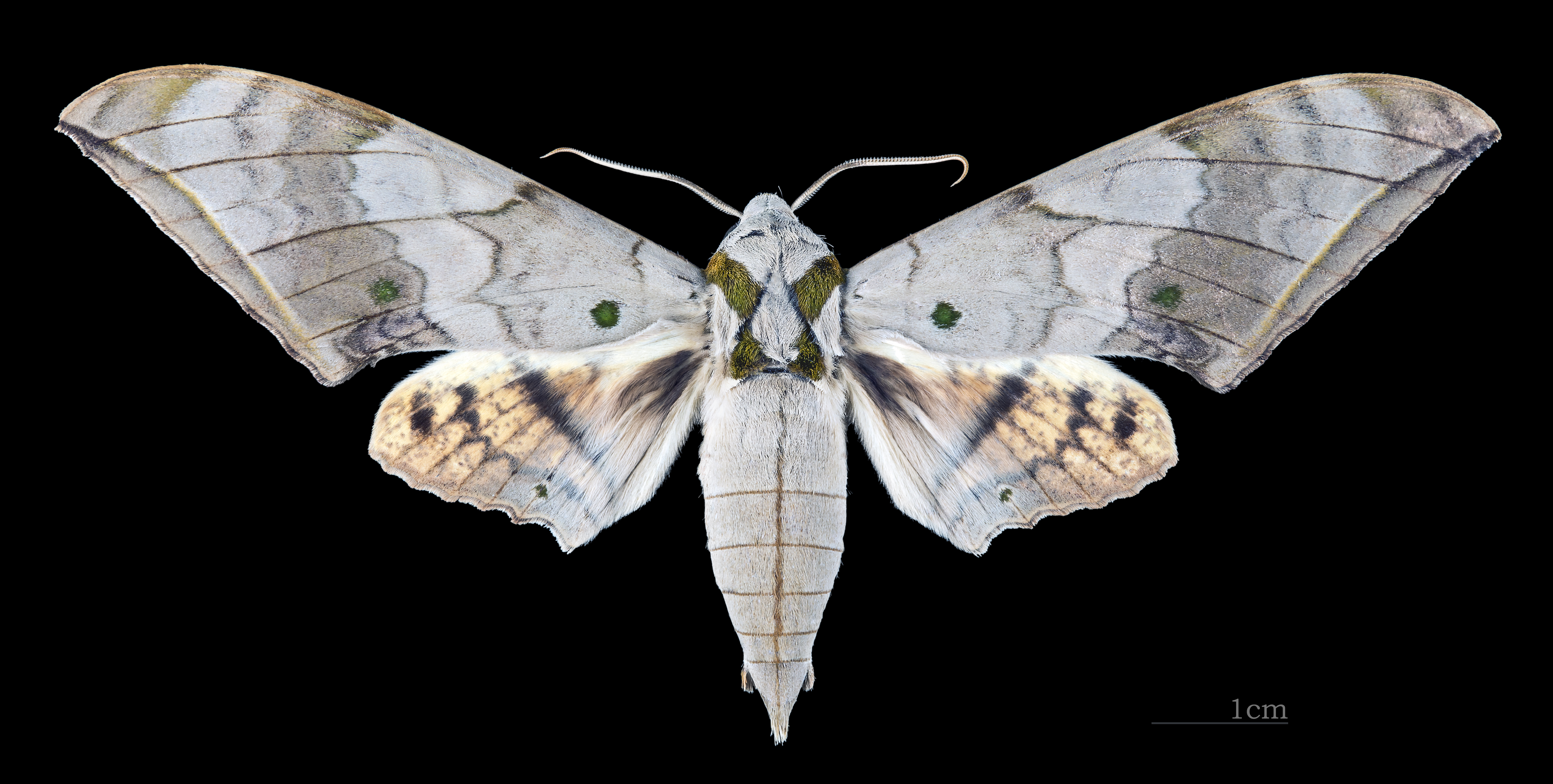 Dark-based gliding hawkmoth - Dorsal side Collection of the Mathematician Laurent Schwartz